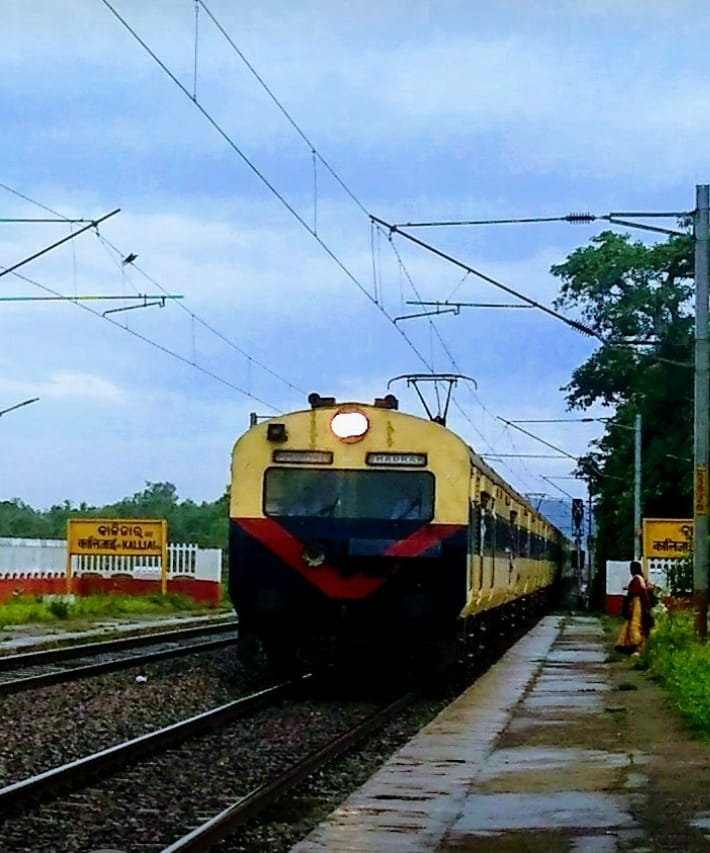 This is the Picture of Kalijai railway station